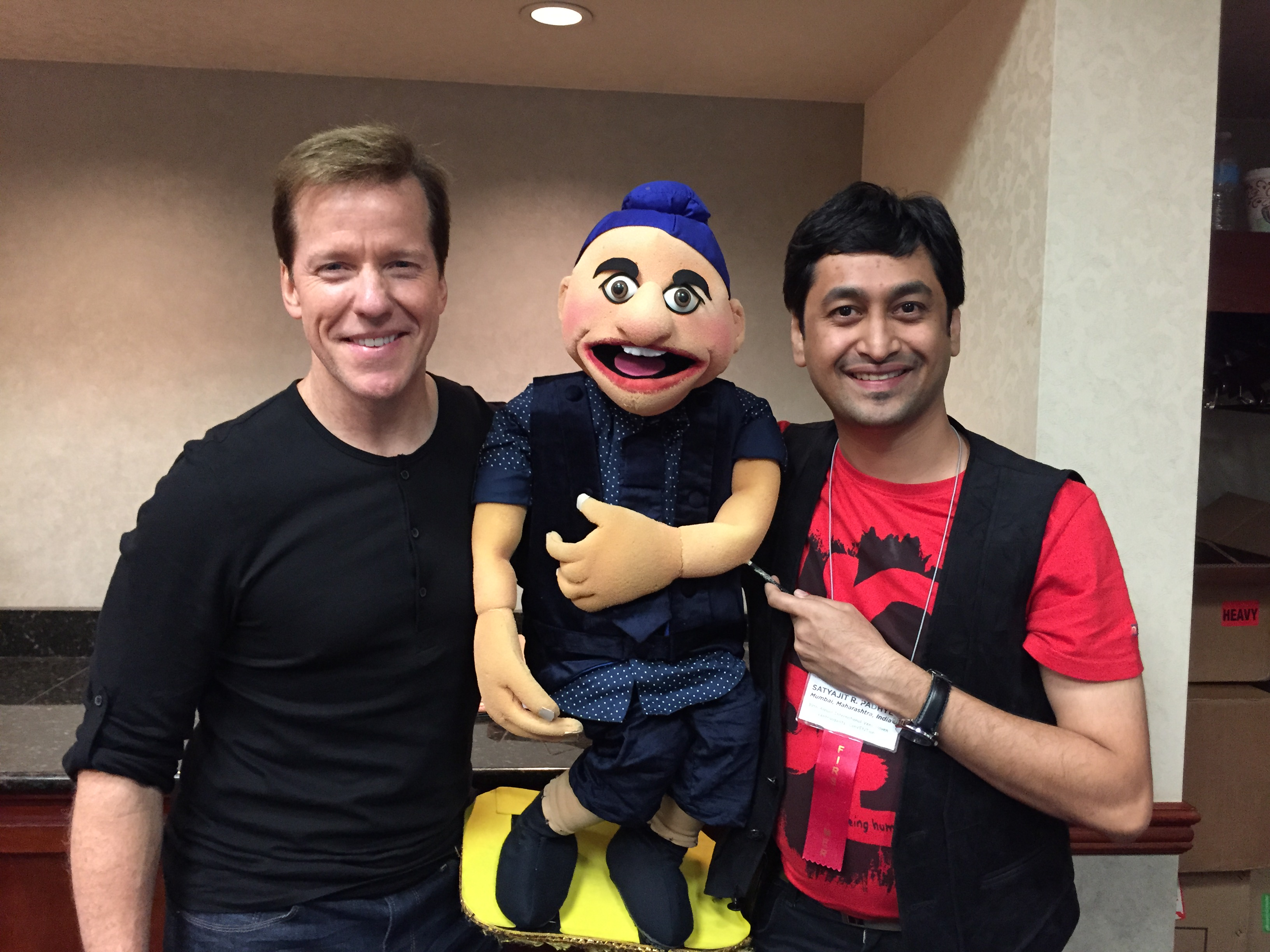 Satyajit Padhye met well known Ventriloquist Jeff Dunham at the 39th Vent Haven Convention in Cincinnati,U.S.A. Satyajit represented India at this prestigious international convention.